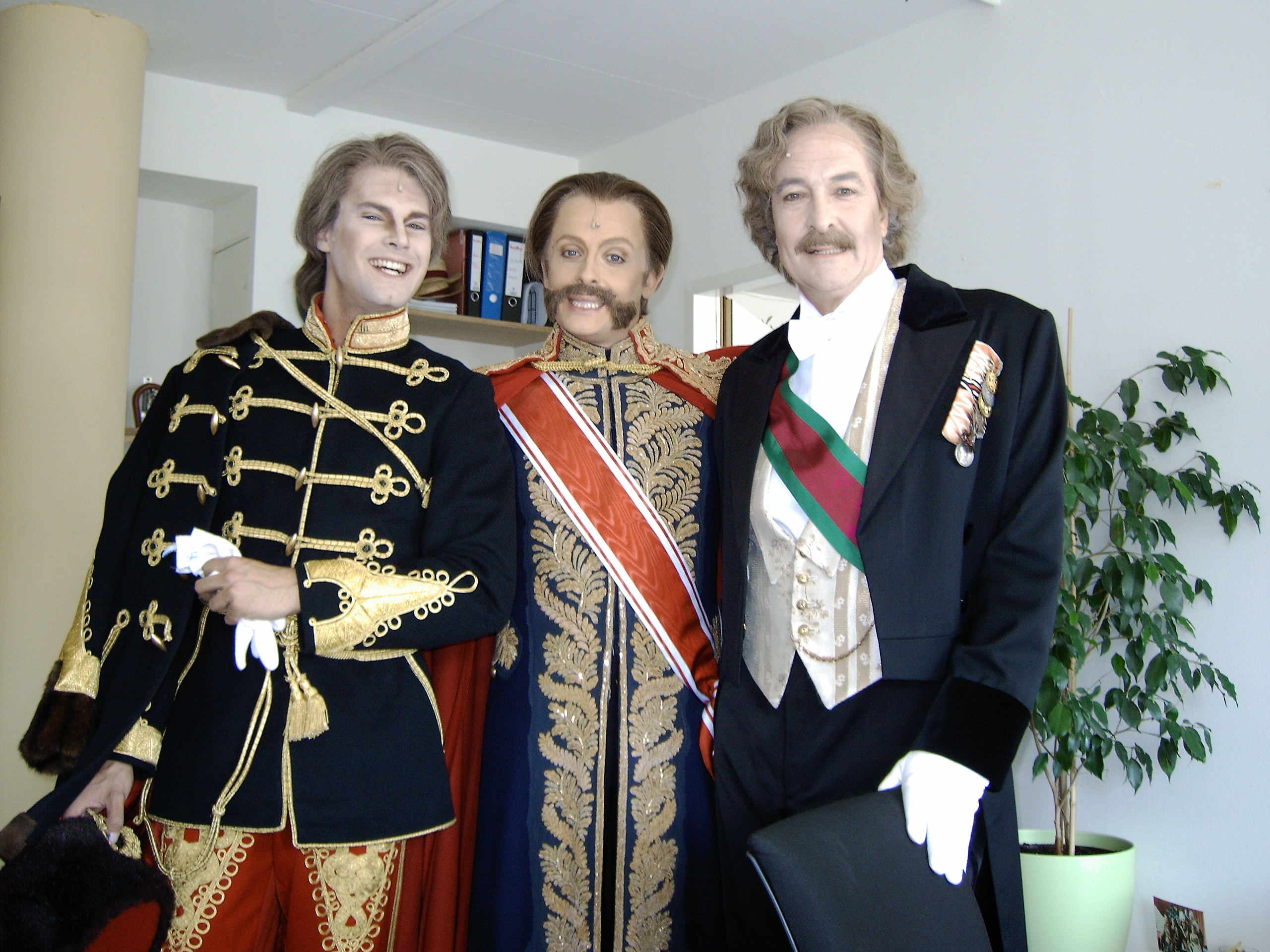 Carl van Wegberg, Ross Antony and Michael Flöth